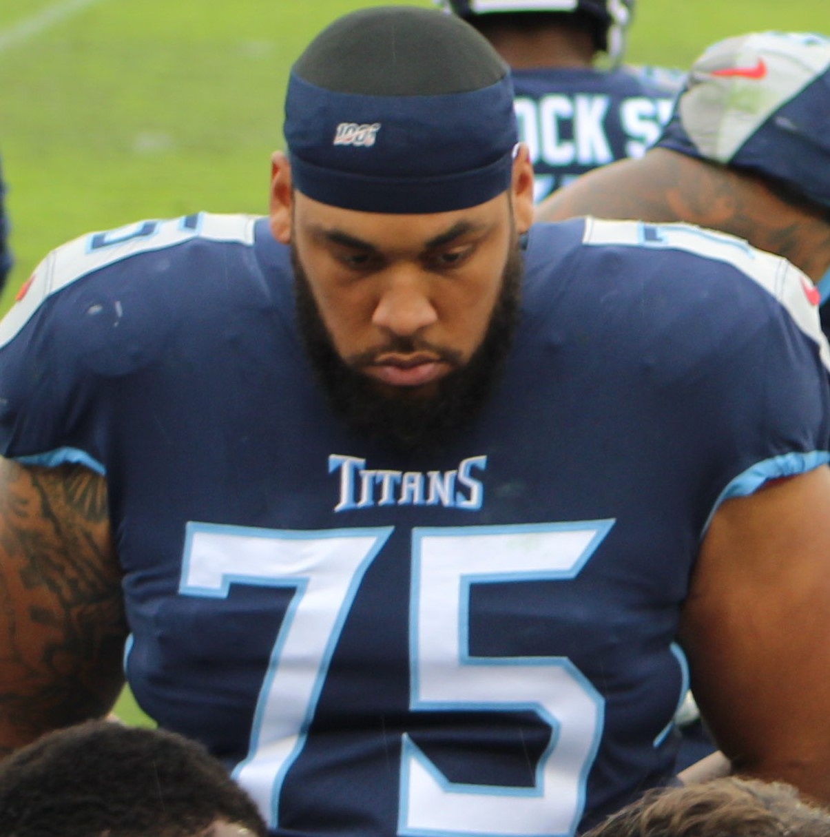 Douglas with the Titans on December 22, 2019